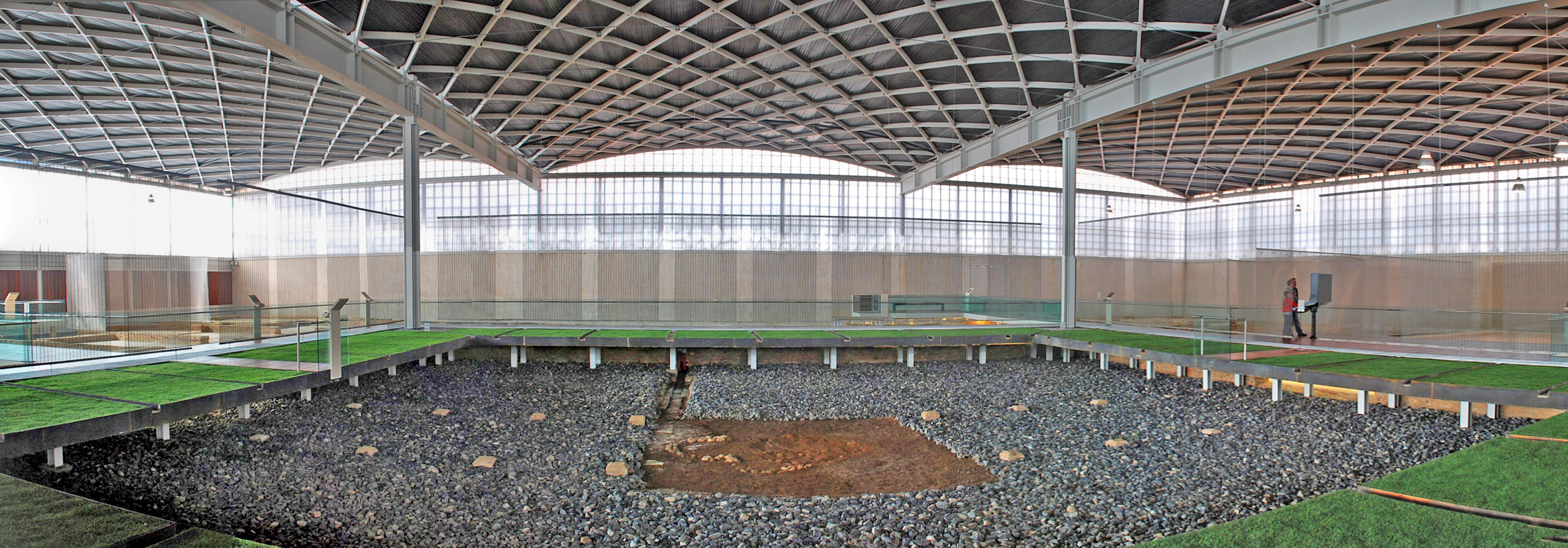 Perystilia of the Roman Villa of La Olmeda in Pedrosa de la Vega (Palencia, Castile and León).